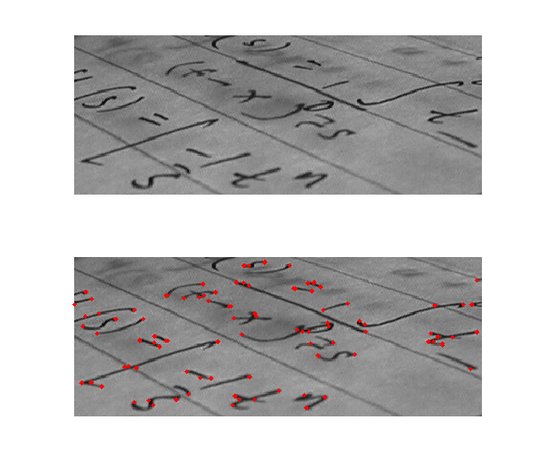 Photograph taken by author and output of algorithm written by author using Matlab programming language.